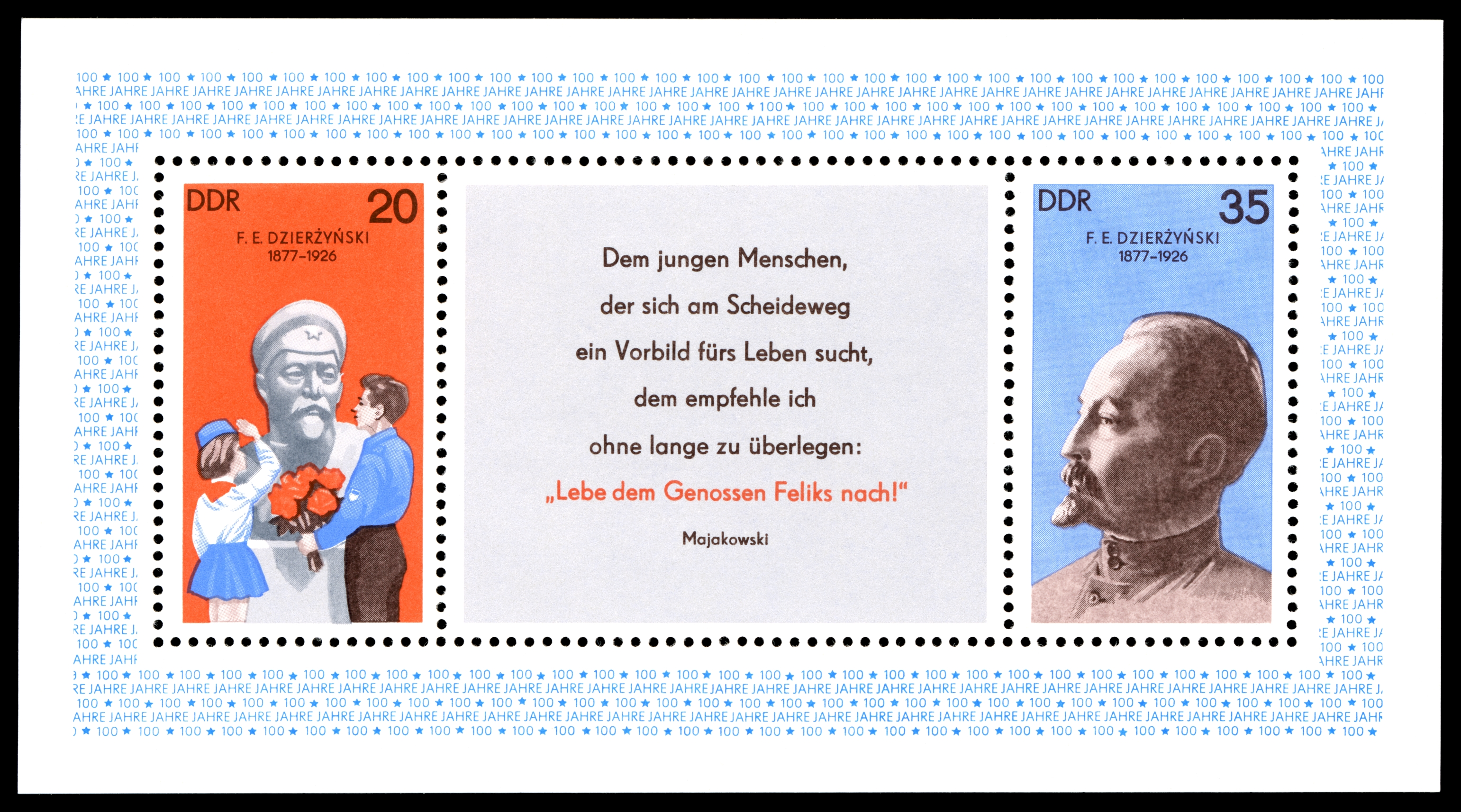 Ausgabepreis: 55 Pfennig First Day of Issue / Erstausgabetag: 6. September 1977 Auflage: 2.800.000 Entwurf: Stauf Druckverfahren: Offsetdruck Michel-Katalog-Nr: Ländercode-MiNr: Block 49 Licensing This file is most likely NOT in the public domain. It has been marked for review, and will be deleted in due course if the review does not find it to be in the public domain.This file was previously considered to be in the public domain as a German stamp; it is possible that it is in the public domain for other reasons, in which case a new rationale will be applied as part of the review process. See below for the previous rationale. Previous public domain rationale, no longer applicable This stamp is in the public domain in Germany because it was released by the postal administration of the German Democratic Republic or the Soviet occupation zone (Deutschen Post der DDR) whose legal successor is the Federal Republic of Germany. Thus it is an official work according to German copyright law (§ 5 Abs. 1 UrhG).